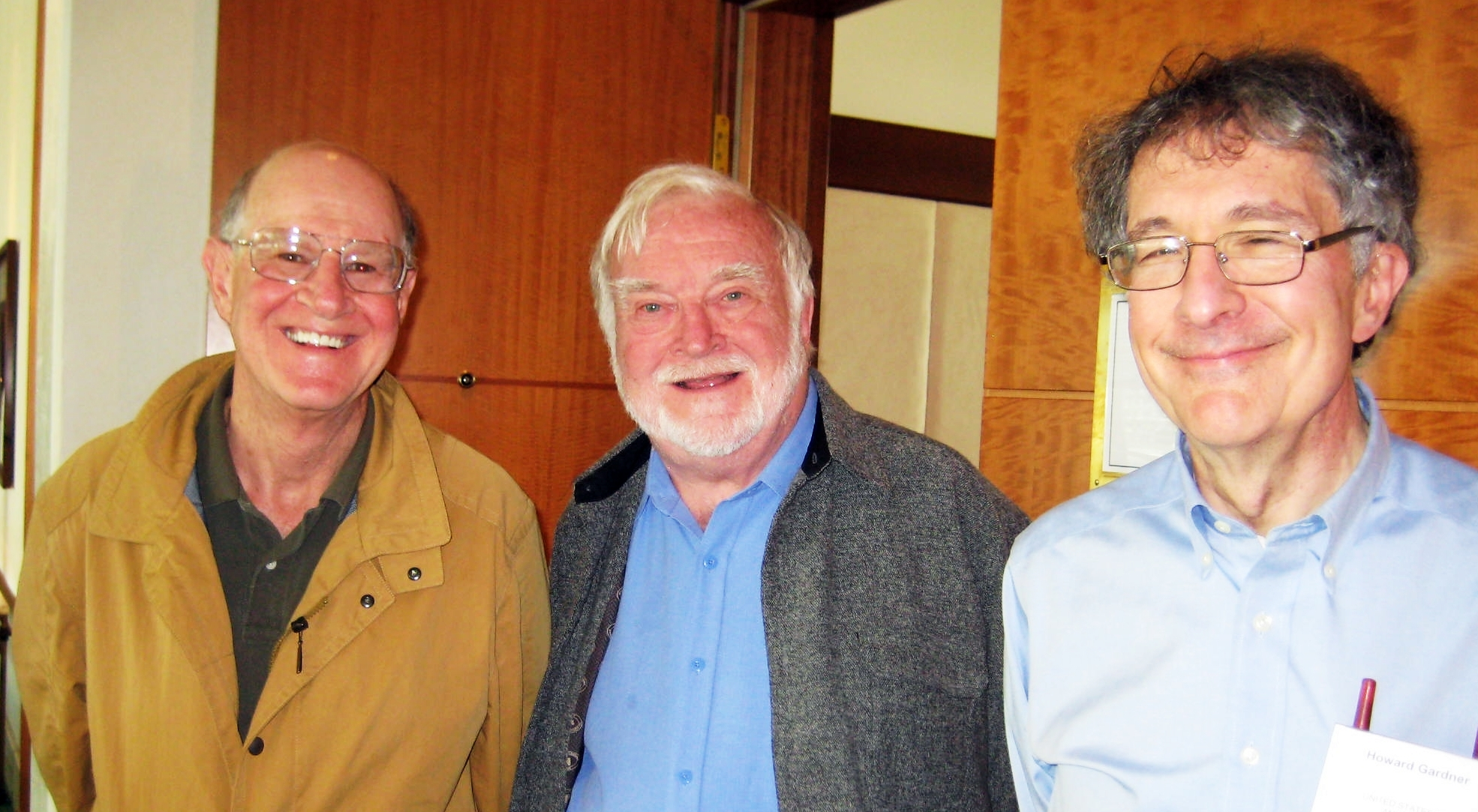 The Good Work Team: William Damon, Mihaly Csikszentmihalyi and Howard Gardner